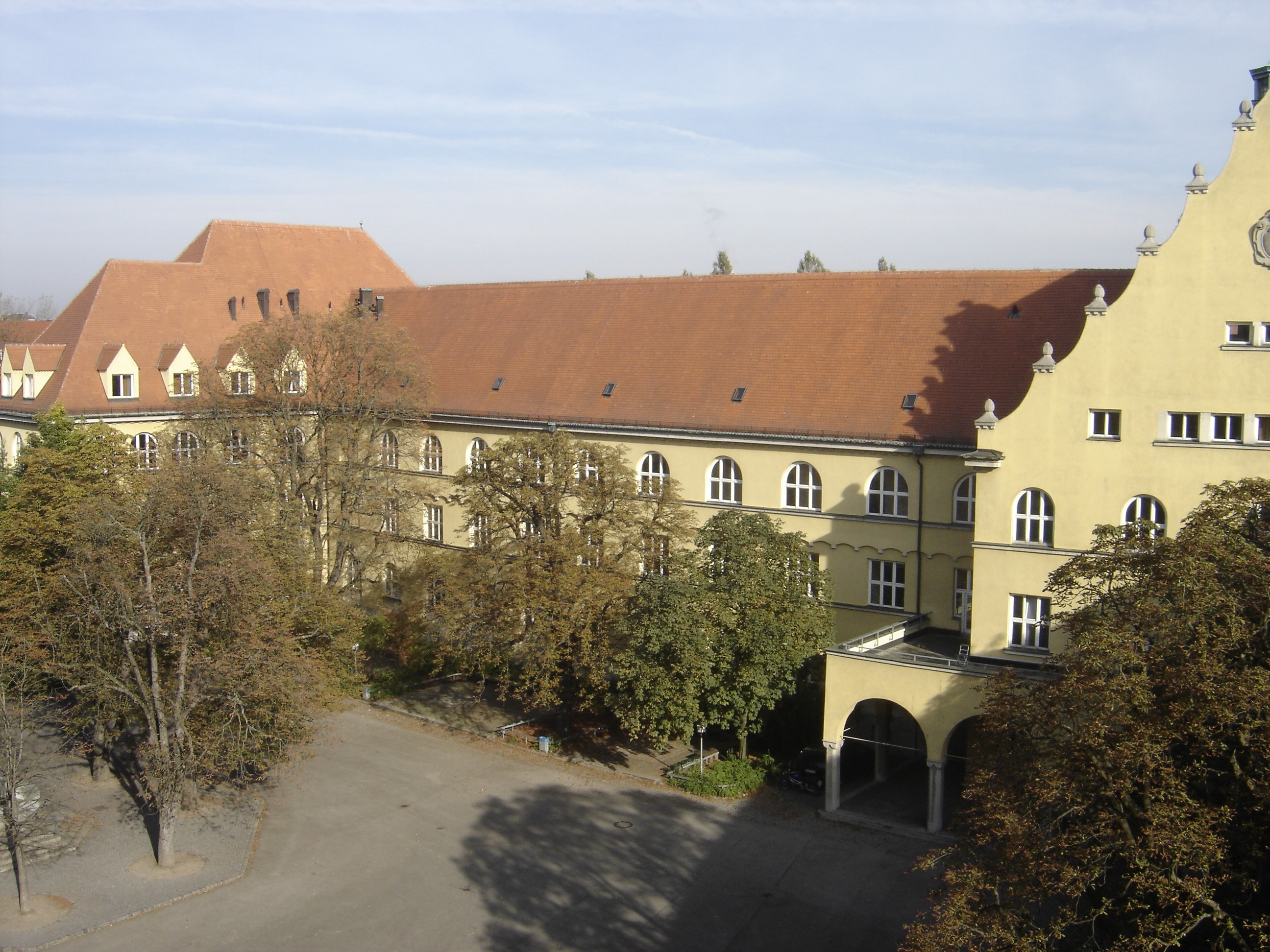 Maximiliansgymnasium in Munich (Bavaria),photo taken from Tower of the Oskar-von-Miller-Gymnasium in Munich